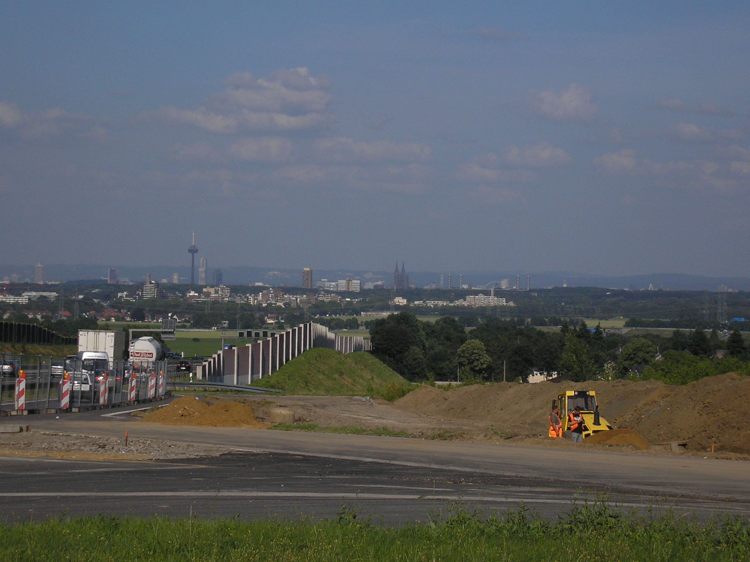 Panorama of Cologne, Germany, from Frechen